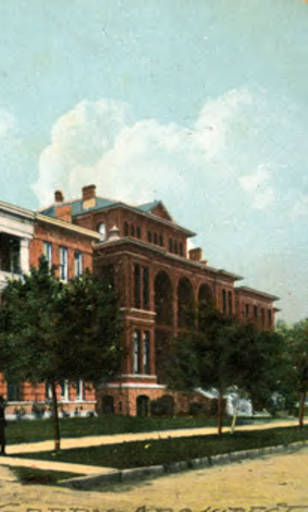 1908 postcard depicting St. Joseph's Infirmary (now St. Joseph Medical Center) in Houston, Texas.